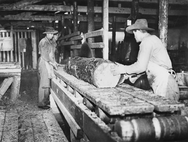 AUSTRALIAN FORESTERS AT WORK IN NORTH BRITAIN: CUTTING THE LOGS AT THE MILLS